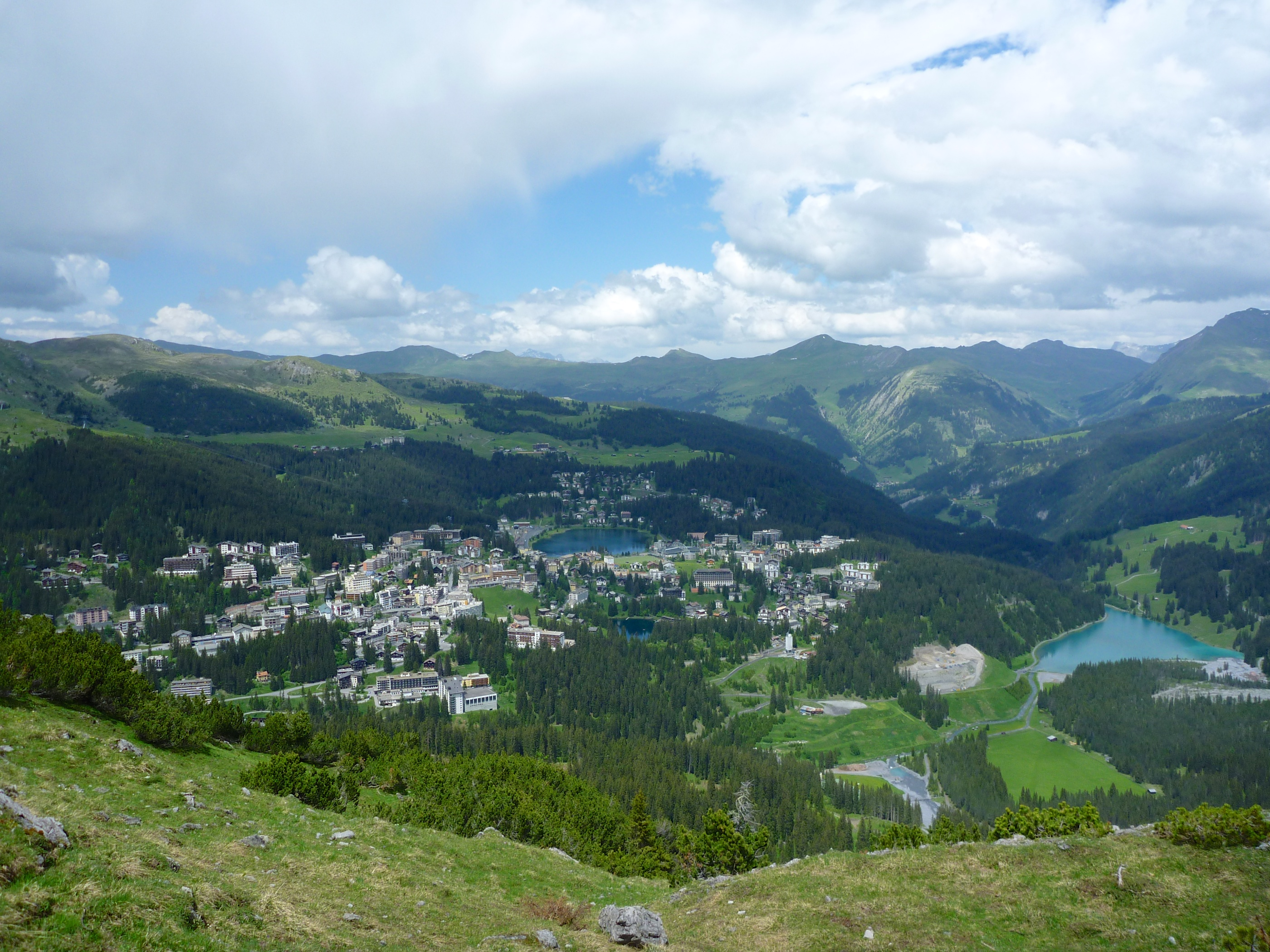 Arosa, holiday resort in Switzerland